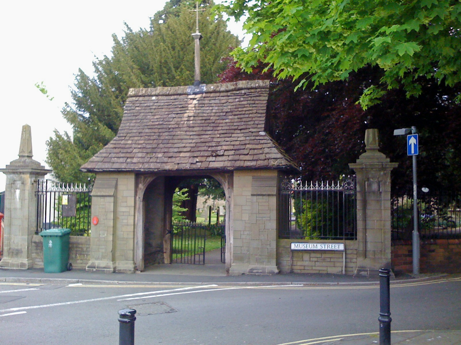 Lych gate, Saint Cadoc's Church, Caerleon